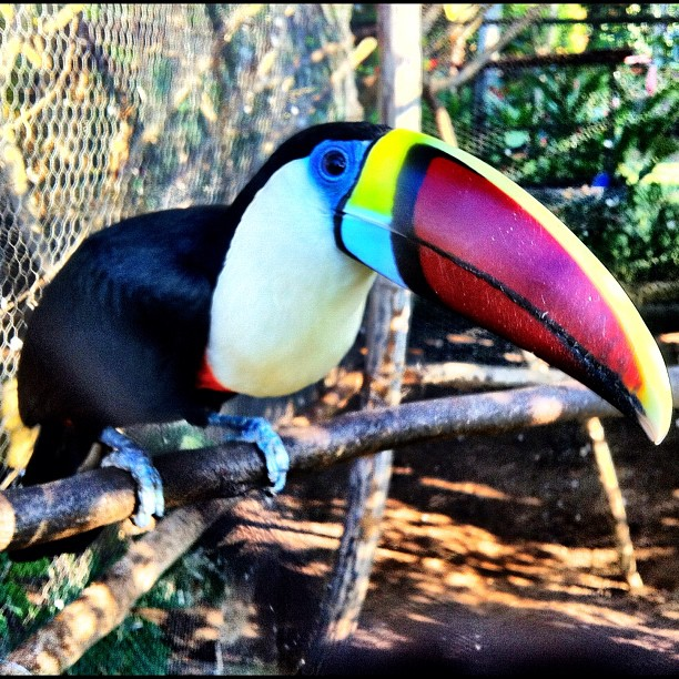 Red-billed toucan